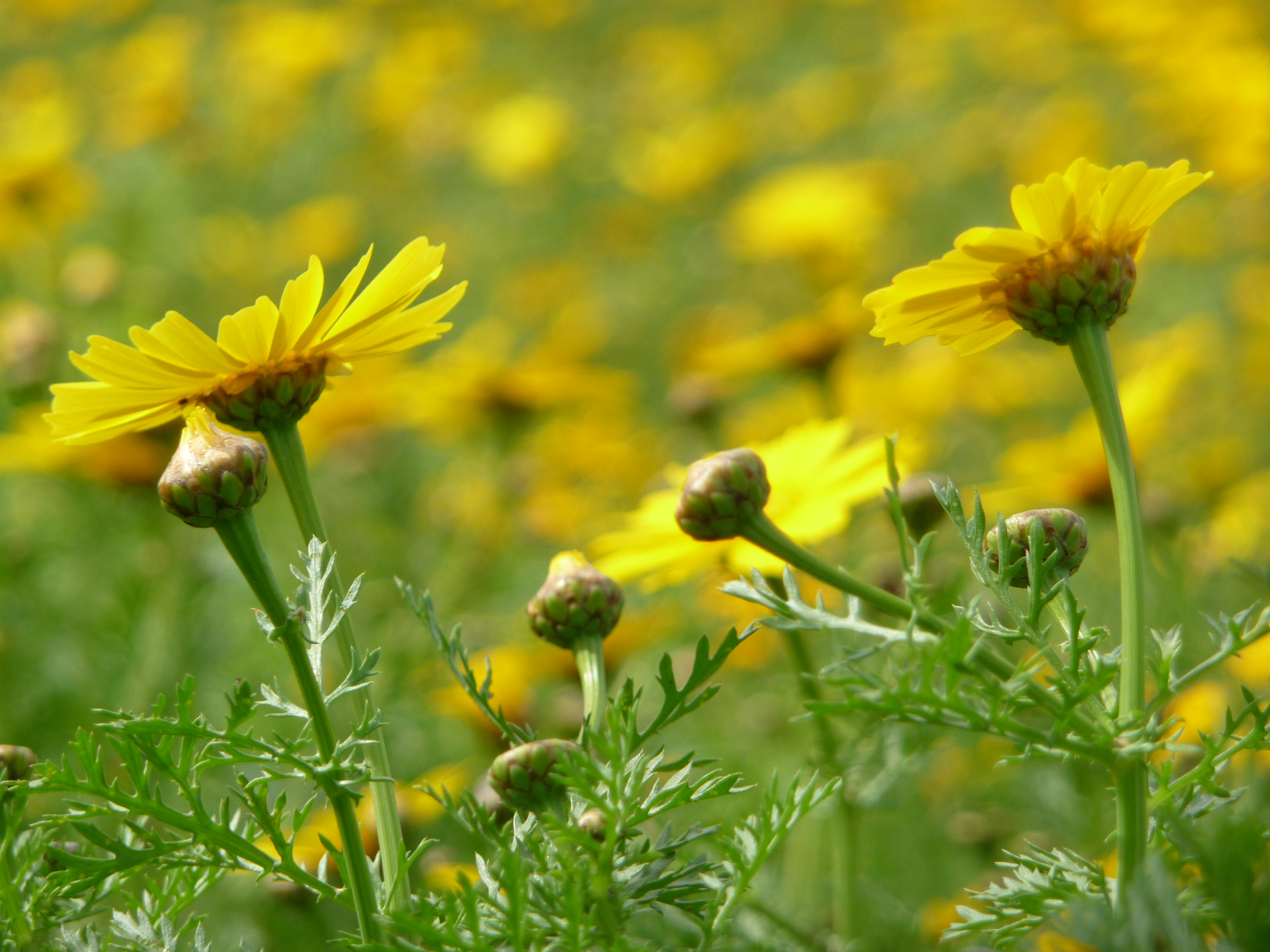 IBet Oren